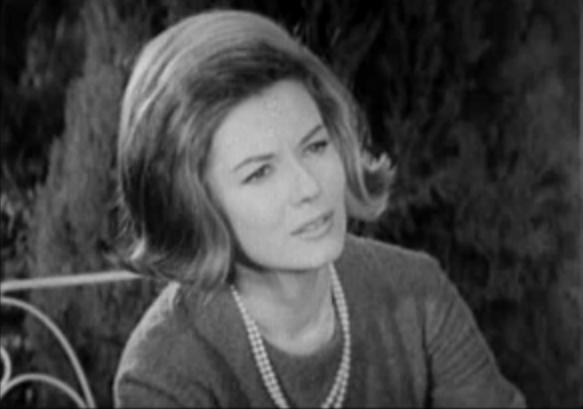 Emma Danieli in The Last Man on Earth